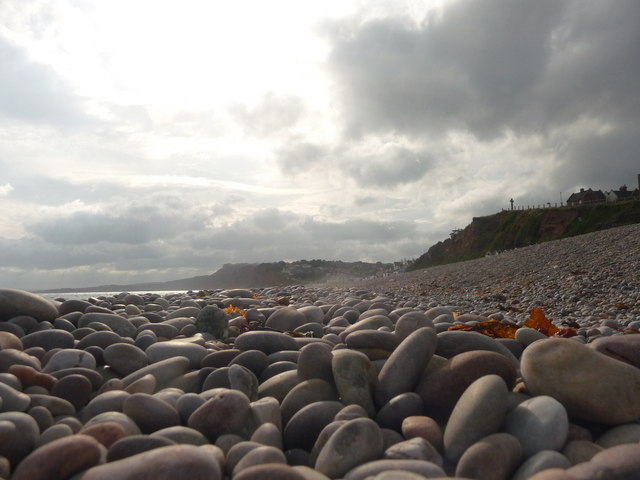 Budleigh Salterton : Pebbly Beach & Coastline